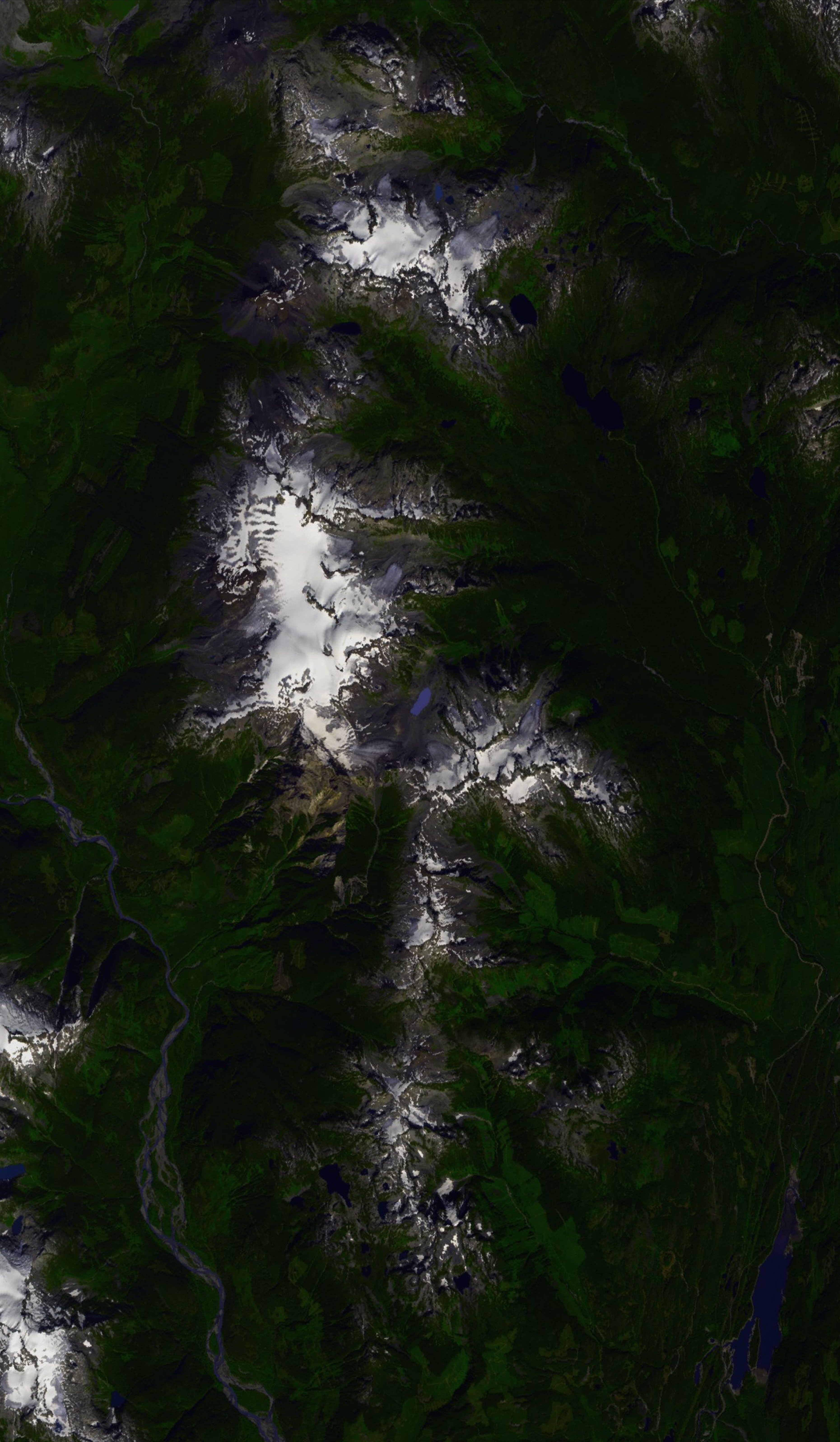 Satellite image of mount Cayley. Approximate geographic limits of the image :* N : 50.29 * S : 49.965 * E : -123.1* W : -123.405 Projection : projection équivalente conique d'Albers, mériden central -123.2525, 1er parallèle 40°, 2nd parallèle 60° ; système géodésique WGS84